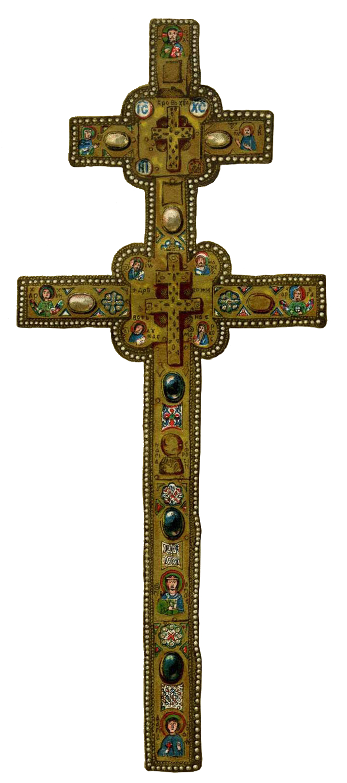 The Cross of Saint Euphrosyne was a revered relic of the Russian Orthodox Church and Belarus